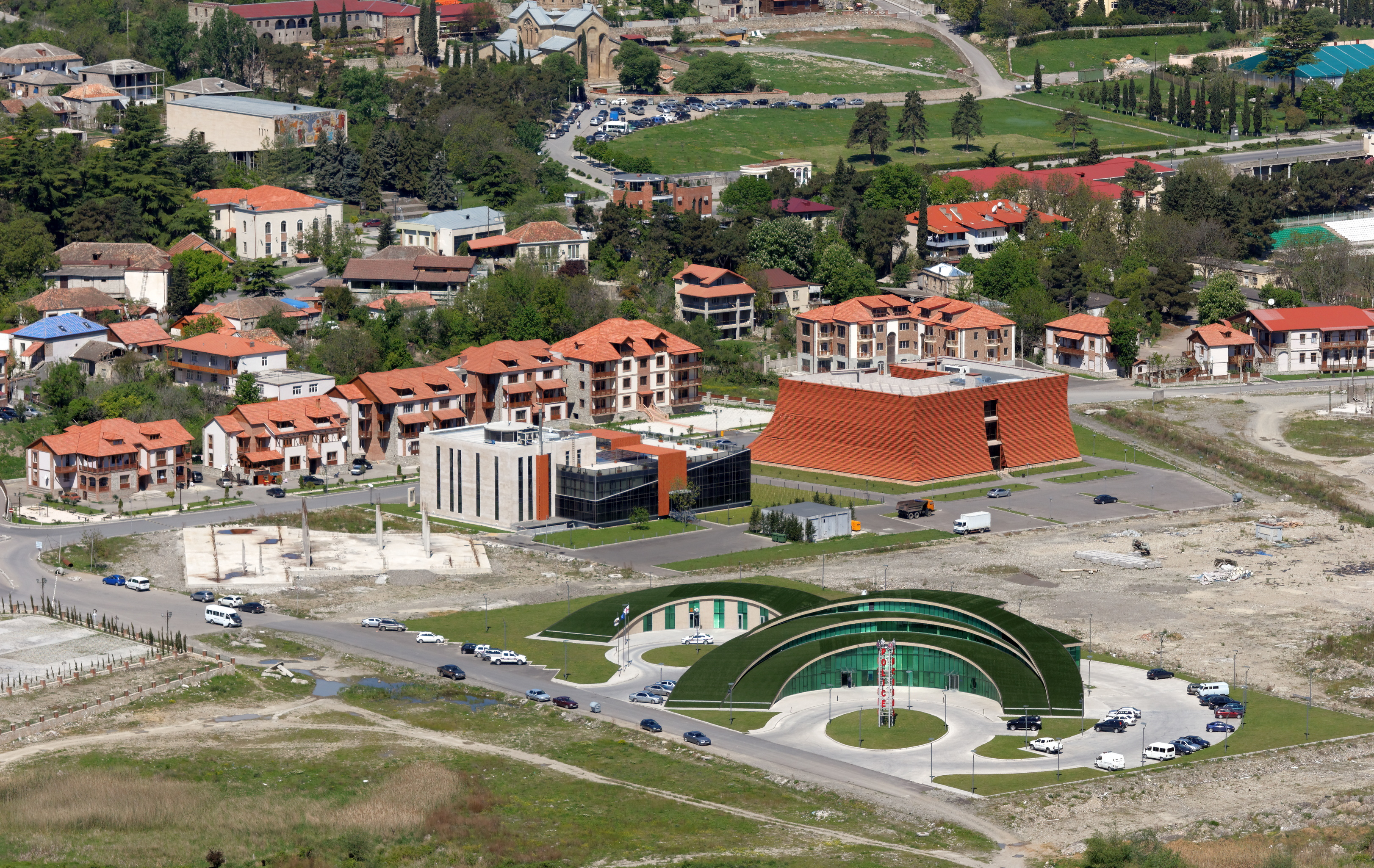 Georgia. Mtskheta